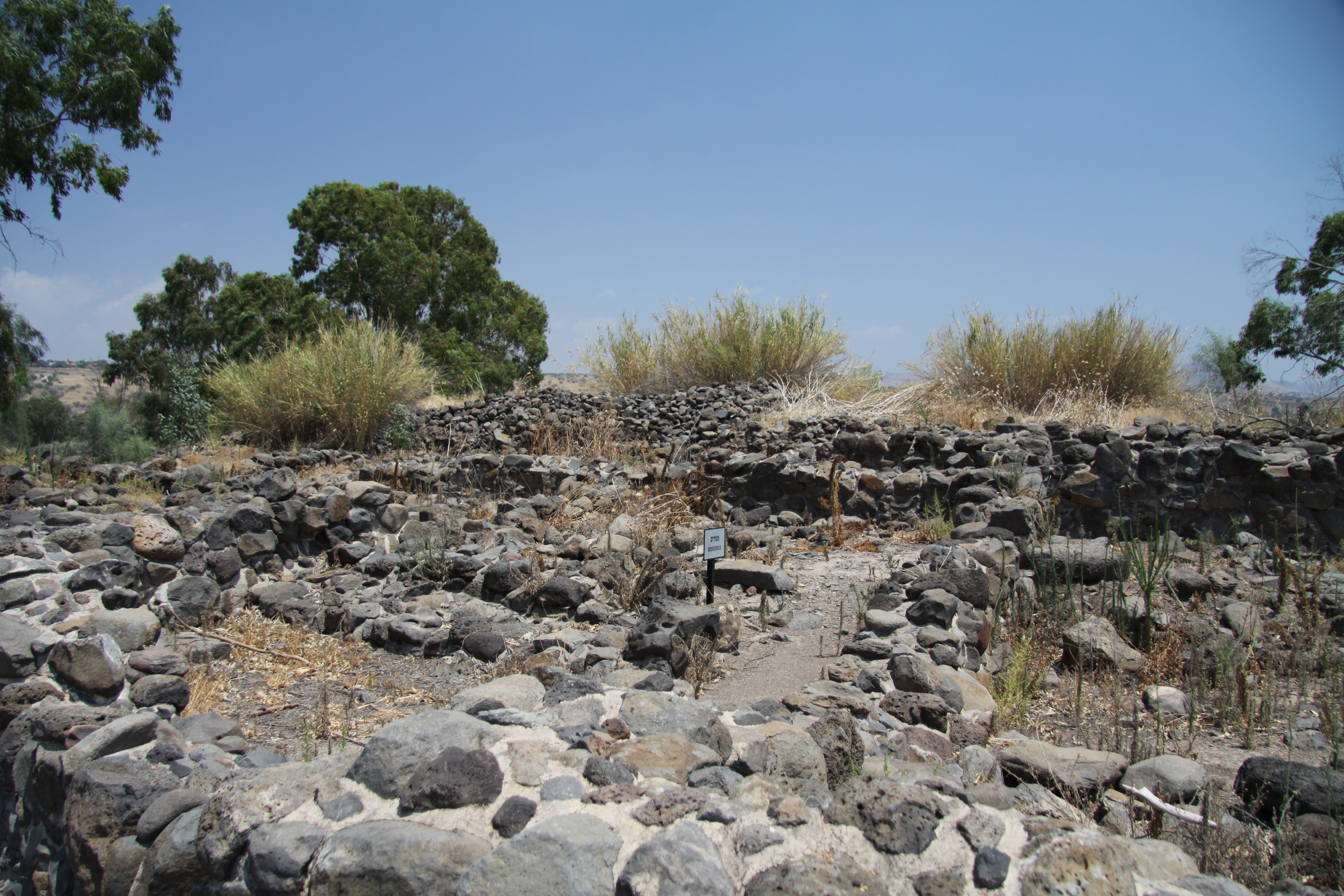 Ruins of fishing village Bethsaida meantiond in New Testament of Bible, northern from Sea of Galilee, Israel